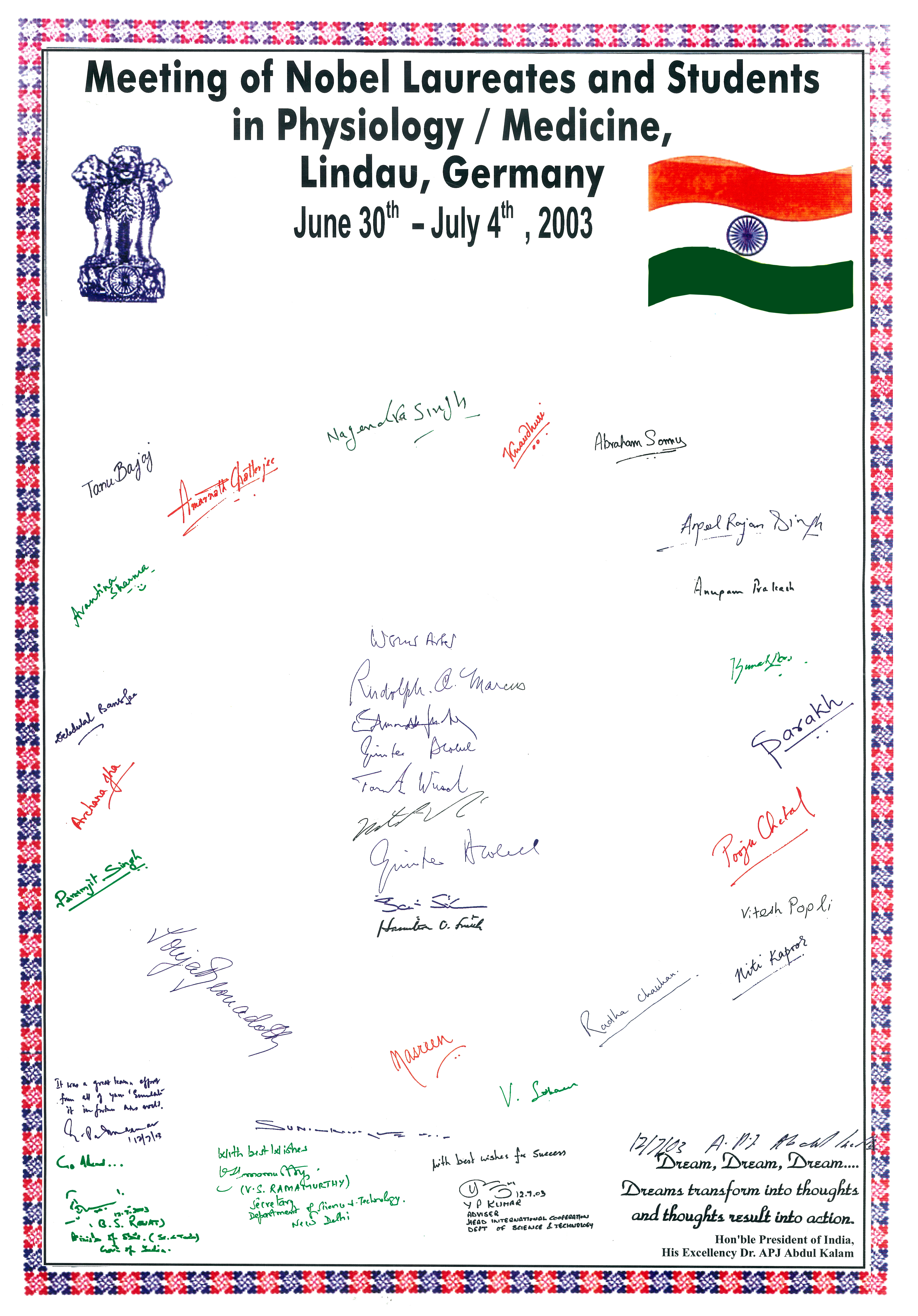 Lindau Nobel Laureate Meet 2003 - Memorabilia and Honor: Signed by - 9 Nobel Laureates, 20 Indian Scholars and Hon'ble President of India APJ Abdul Kalam